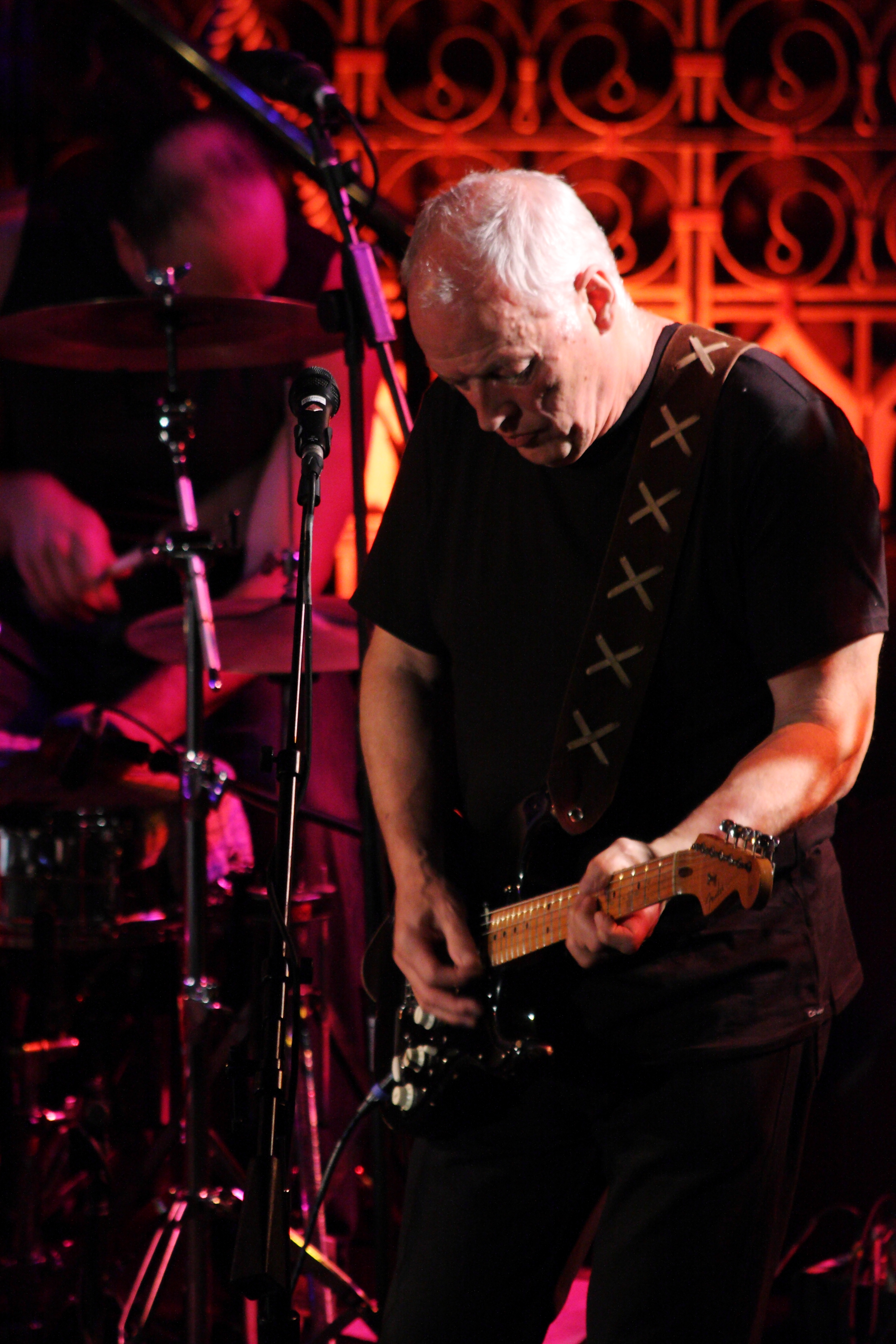 David Gilmour on the Crisis "hidden" Gig at the Union Chapel in 2009.